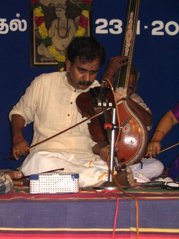 A musician playing a violin at Carnatic music concert in Coimbatore, Tamil Nadu. This picture illustrates the manner in which the violin is traditionally held in Carnatic music.